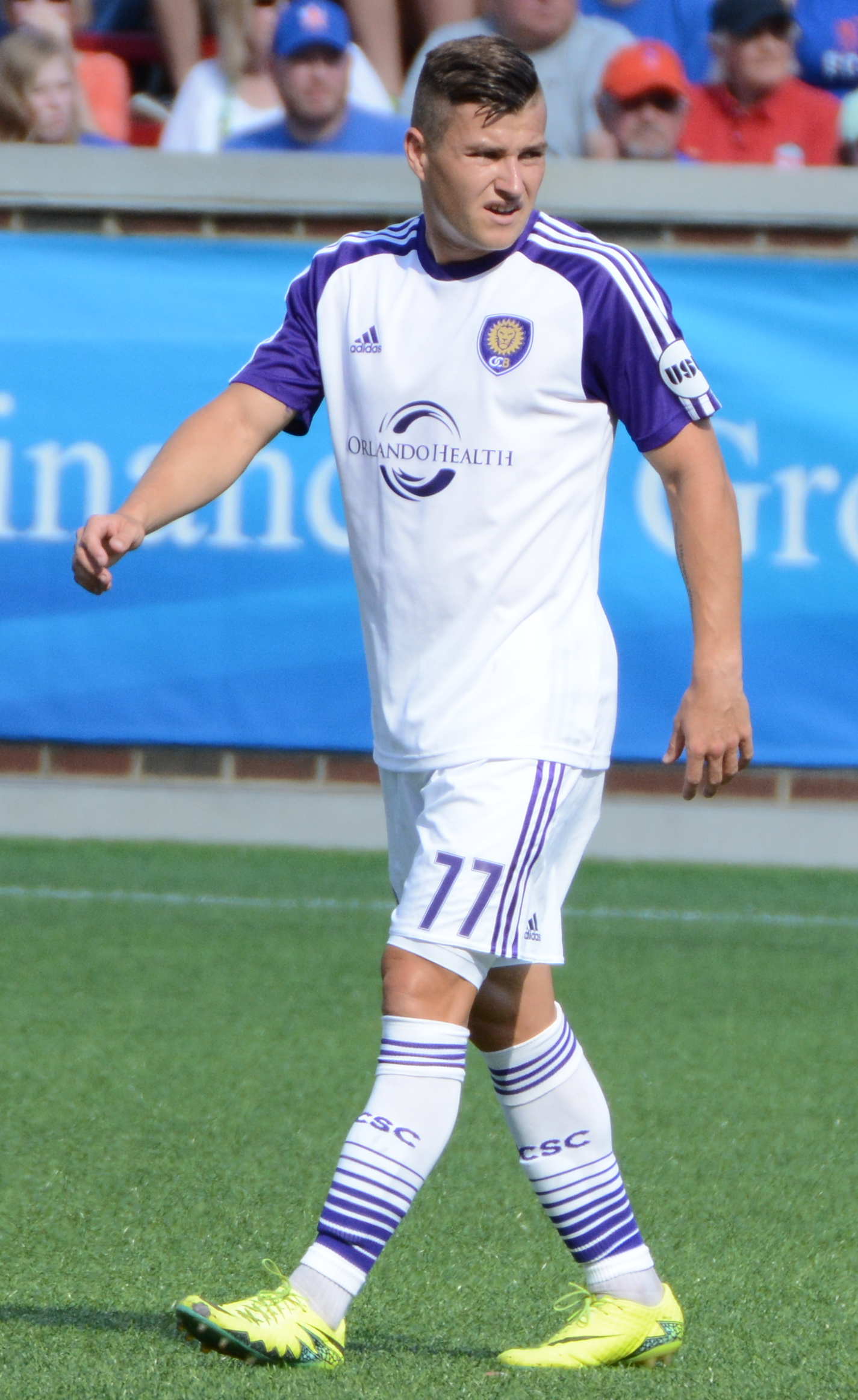 Austin Martz Taken during a match between FC Cincinnati and Orlando City B at Nippert Stadium in Cincinnati, USA on May 13, 2017.